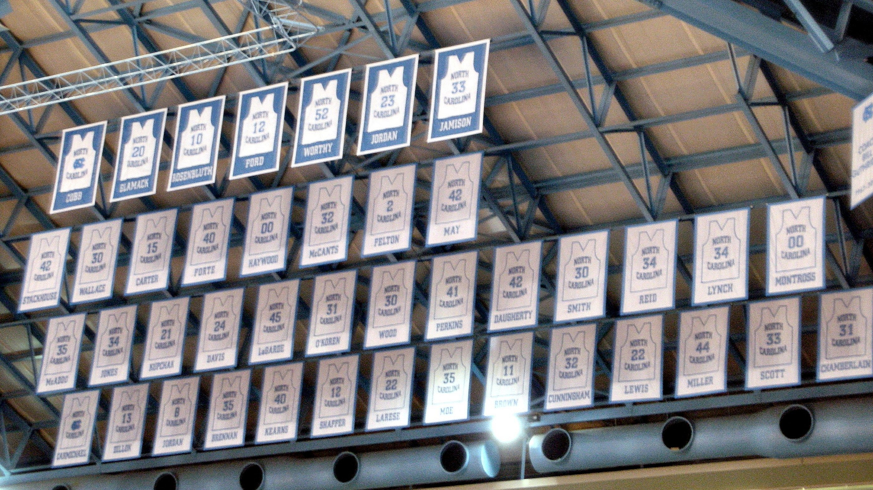 Jerseys displayed in the rafters of Dean Smith Center of honored and retired former North Carolina Tar Heels basketball players. The front 7 in blue background are retired numbers that will not be used again, the other 37 are "honored" numbers that can be worn by future players. Since this photo was taken, Tyler Hansbrough's number was retired, while Ty Lawson and Wayne Ellington have been honored.